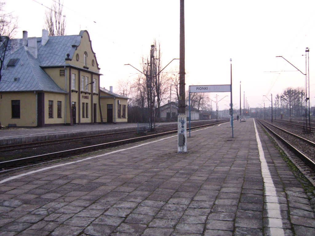 Train station Pionki